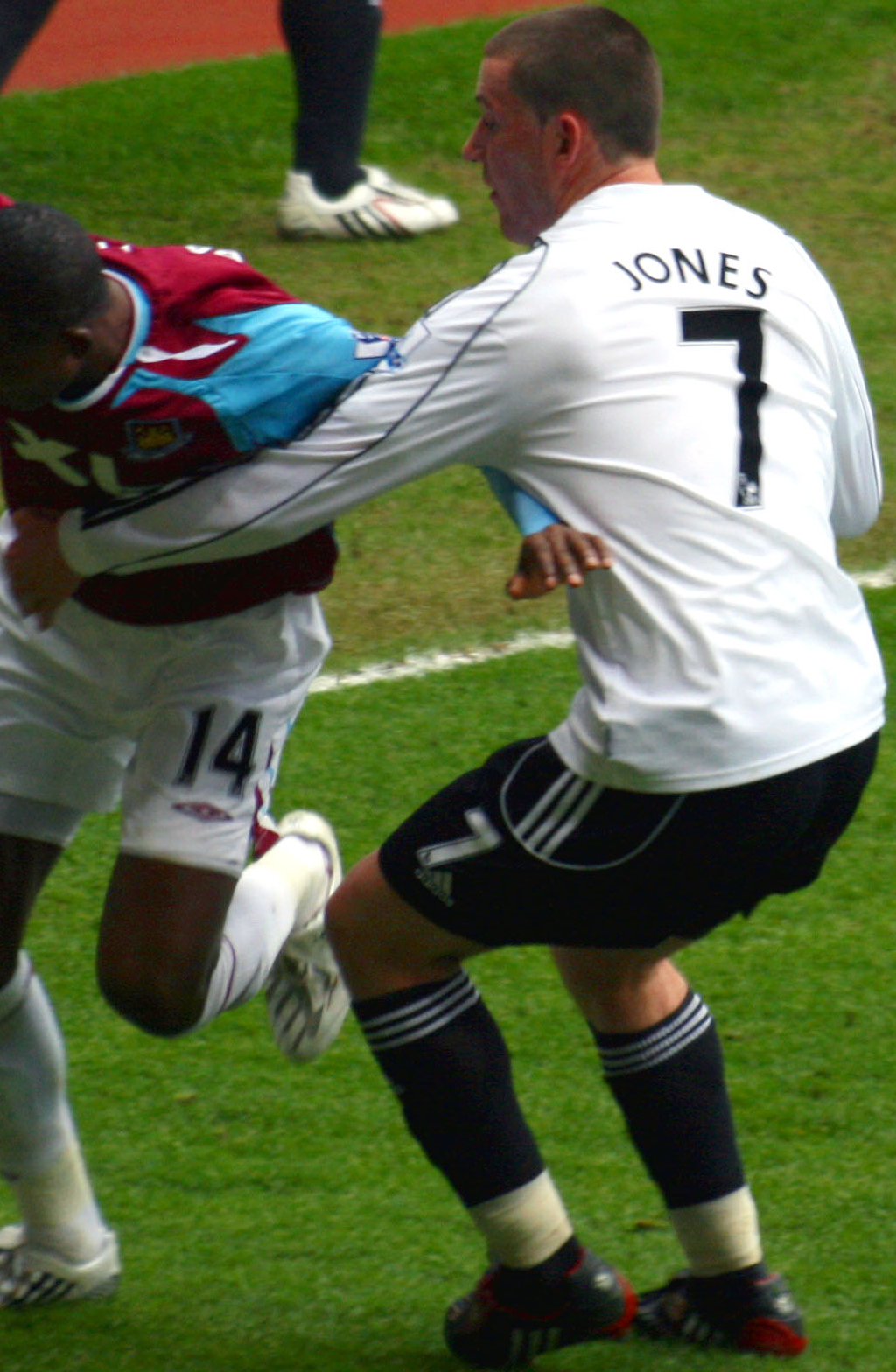 David Jones. Image cropped from original at flickr.